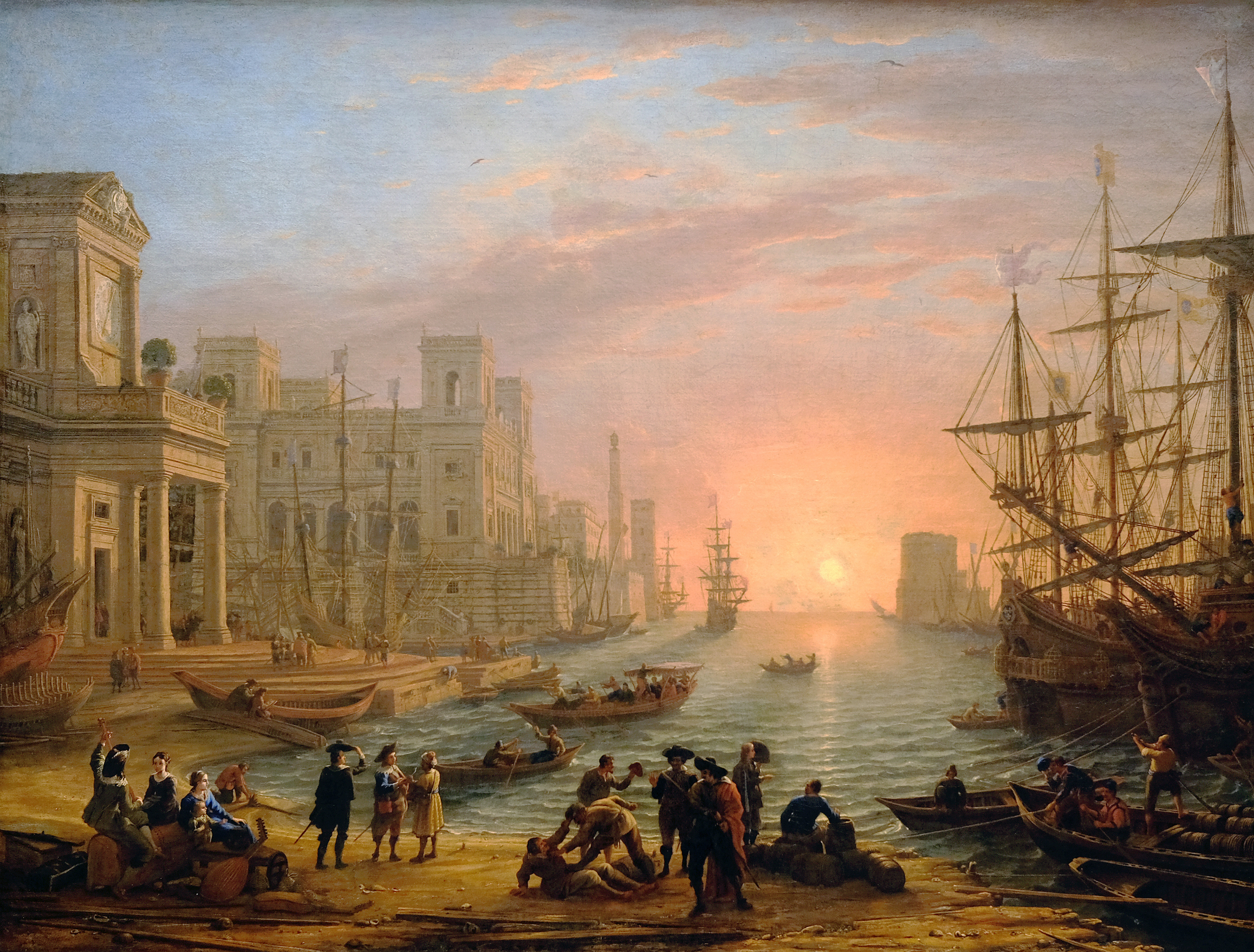 Claude Lorrain painting from 1639, as seen on French TV series Palettes